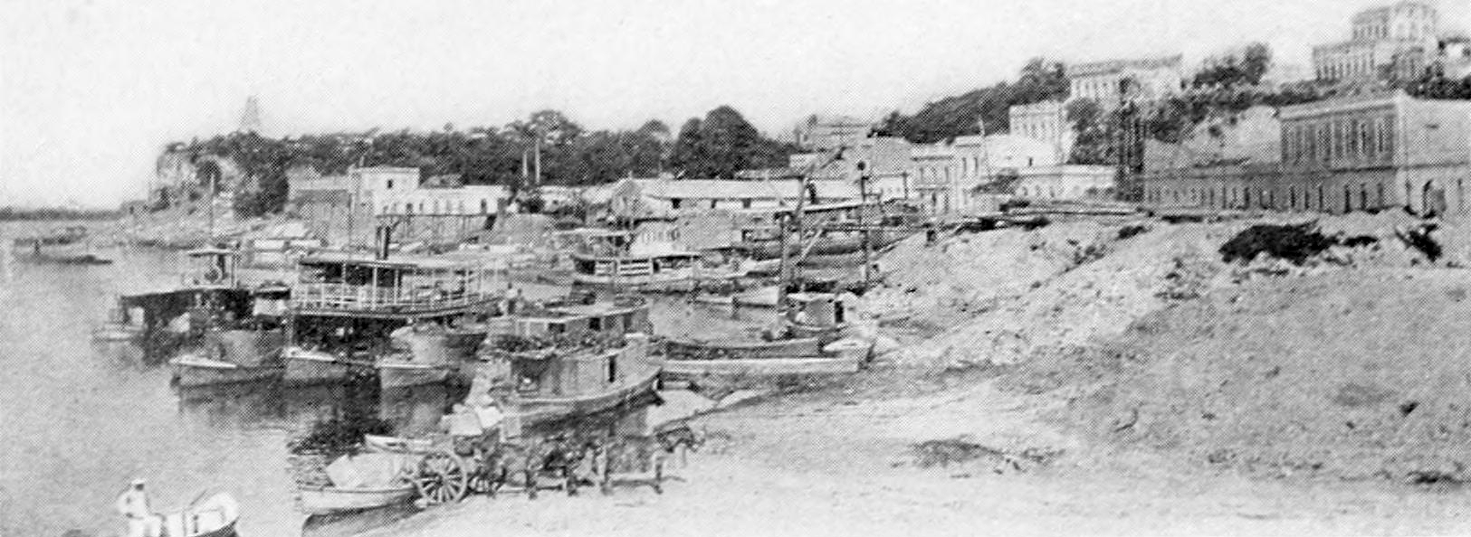 Identifier: throughsouthamer00zahmuoft Title: Through South America's southland; with an account of the Roosevelt Scientific Expedition to South America Year: 1916 (1910s) Authors: Zahm, John Augustine, 1851-1921 Subjects: Roosevelt, Theodore, 1858-1919 South America -- Description and travel Publisher: New York, Appleton Text Appearing Before Image: ^ kind, he talked of the schools and workshops hepurposed erecting for poor children; of the spacious play-grounds and the large and beautiful church he intendedto have for them. With a childlike confidence in DivineProvidence, he felt sure that he would find associates toassist him in his work and that he would eventually ob-tain the means necessary to carry on the noble works ofcharity which he had plamied on a scale that w^as nothingshort of gigantic. One of the projects of Don Bosco, which the worldlywise considered as utterly fatuous, was the conversion andcivilizing of the wretched Indians of Tierra del Fuego. 430 Text Appearing After Image: KivER Froxt. Corumba.